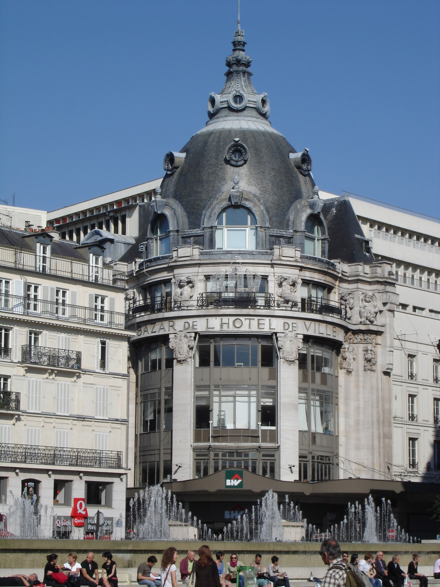 BHV - View from the Place de l'Hôtel de Ville (Paris)